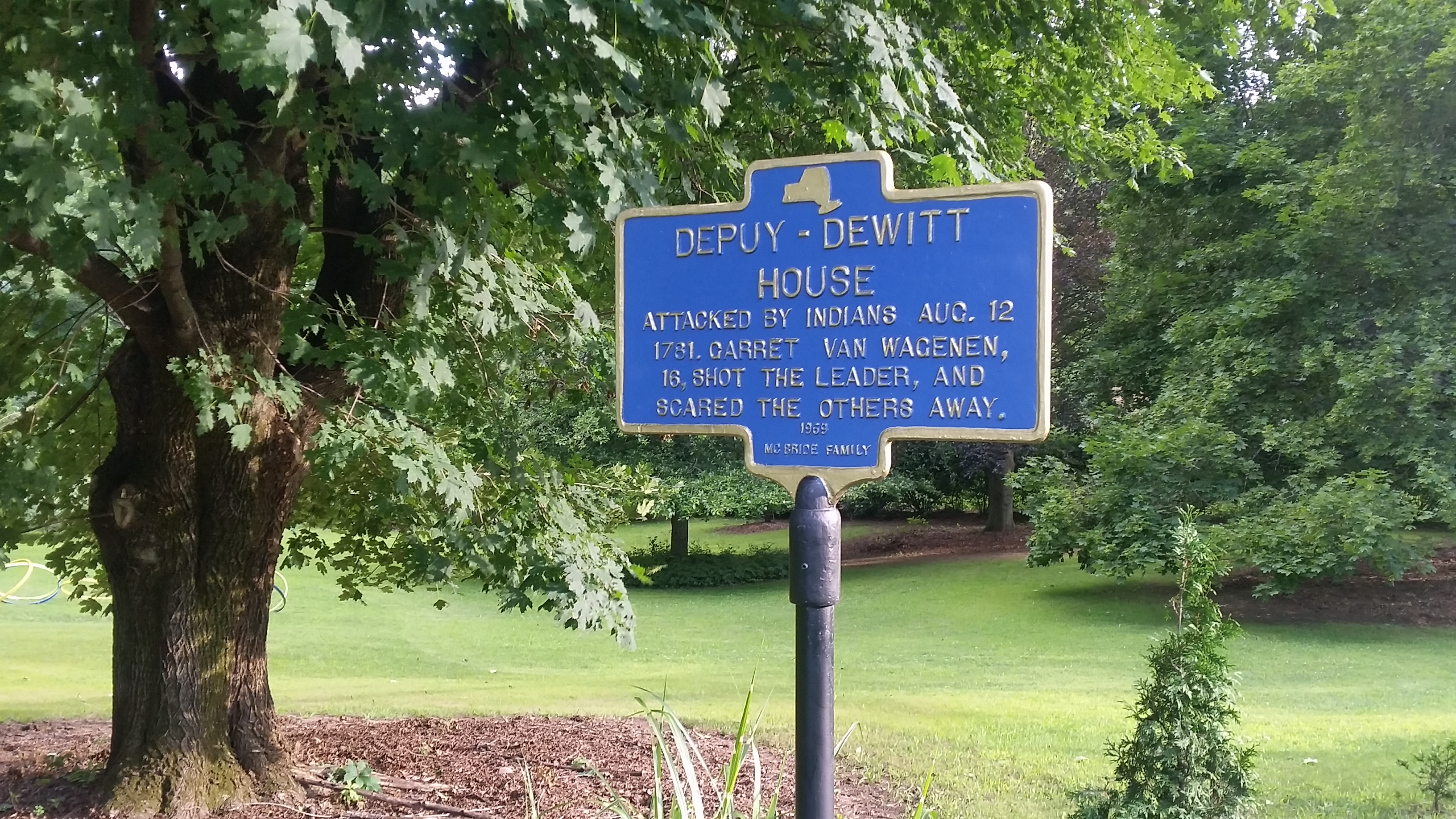 NY State historical marker for the Depuy - Dewitt House